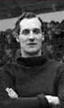 Cropped from C Orient postcard 1914/15